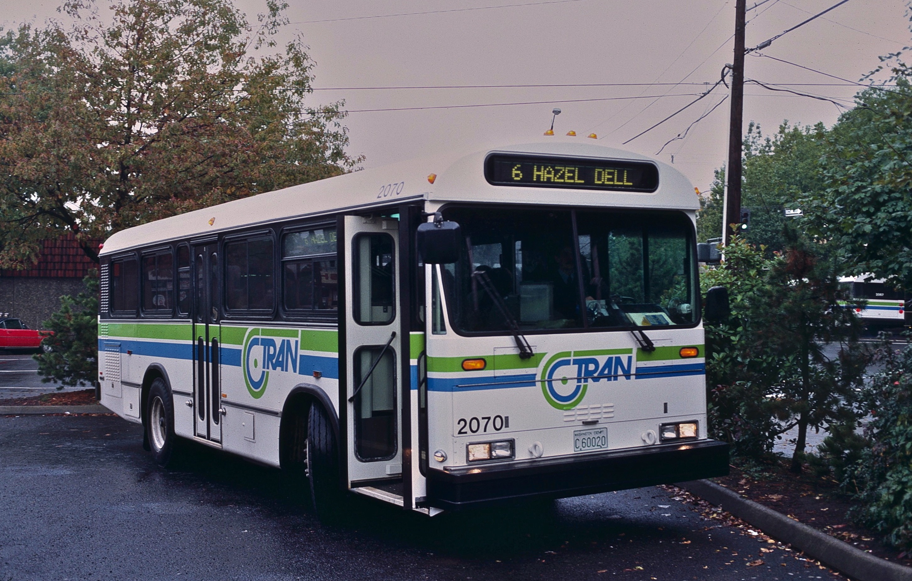 Bus 2070 of C-Tran (Vancouver, Washington) was a 1984 Carpenter CBW 300, a 30-foot transit bus model. It was photographed in October 1984, laying over at C-Tran's original bus terminal in downtown Vancouver. This off-street terminal closed 10 days later, replaced by the then-new 7th Street Transit Center. The old terminal was located in the southern half of the block bounded by 14th Street, Mill Plain Blvd., Main Street and Broadway (a building has since been constructed on about half of that half-block). Bus 2070 was in the southeast corner of the block, and the intersection of Broadway & Mill Plain is in the background of this photo, which is looking east. No. 2070 was one of 10 Carpenter CBW 300 buses in C-Tran's fleet, built in 1984 and numbered 2060–2065 and 2067–2070.